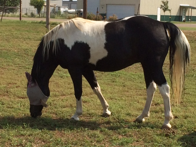 Missouri Fox Trotter